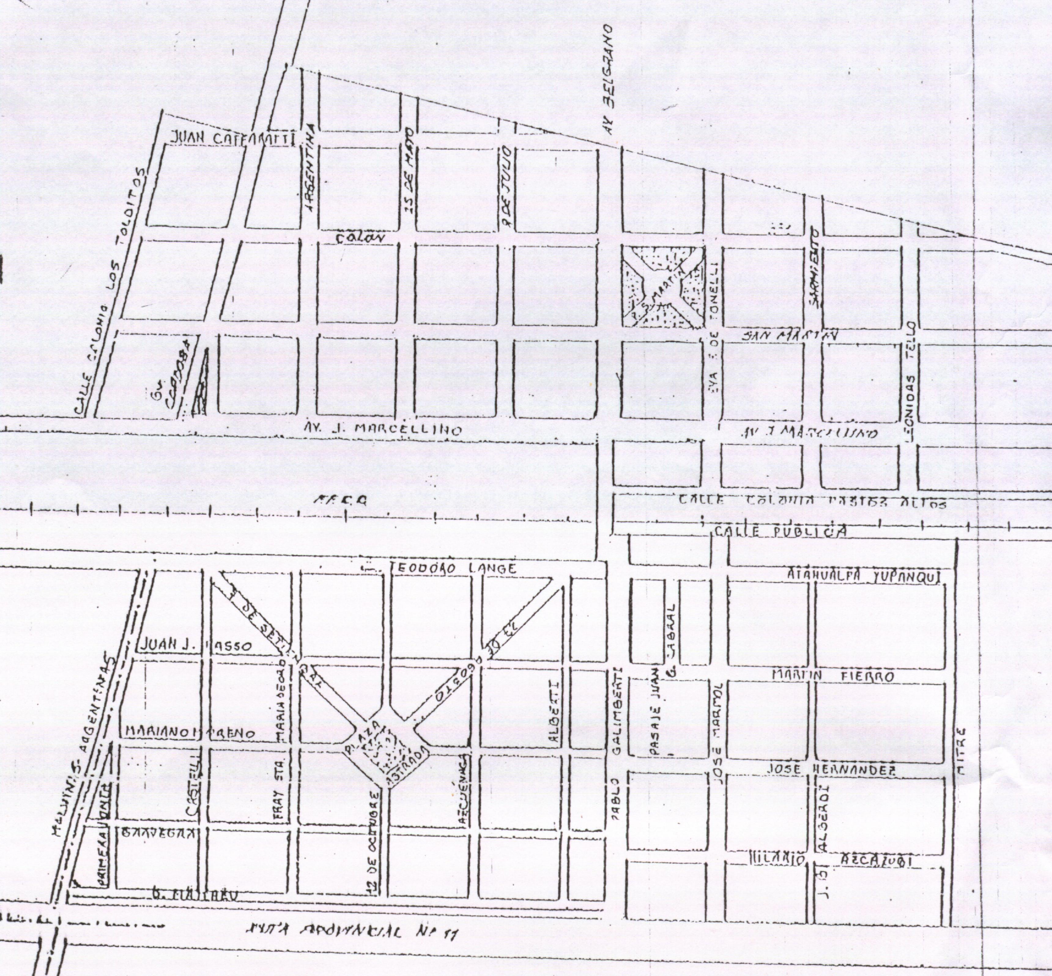 Map of Bengolea (Argentina)